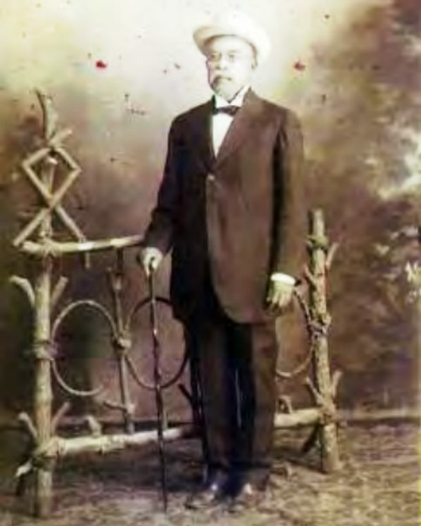 General Ignacio Chaves